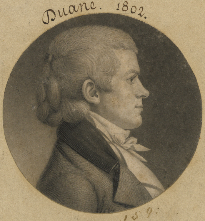 William Duane Artist Charles Balthazar Julien Févret de Saint-Mémin, 12 Mar 1770 - 23 Jun 1852 Sitter William Duane, 17 May 1760 - 25 Nov 1835 Date 1802 Type Print Medium Engraving on paper Dimensions Image: 5.6 x 5.6 cm (2 3/16 x 2 3/16") Sheet: 55 x 40 cm (21 5/8 x 15 3/4") Credit Line National Portrait Gallery, Smithsonian Institution; gift of Mr. and Mrs. Paul Mellon Object number NPG.74.39.4.22 Data Source National Portrait Gallery